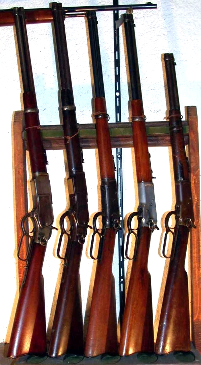 Two Model 73 .44-40 caliber Carbines, one Model 94 .38-55 caliber, two Model 92, the shorter is a "Trapper"